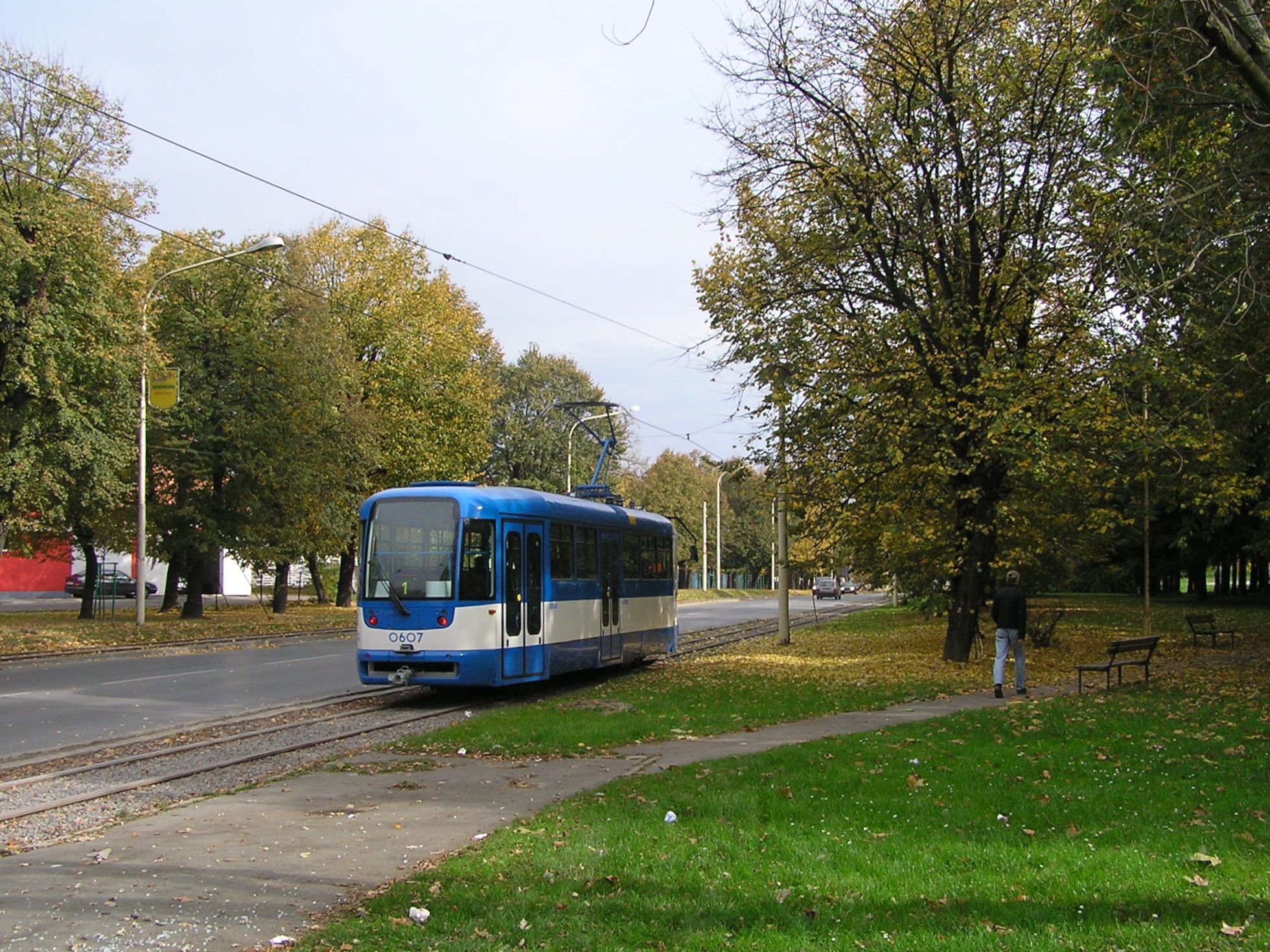 Renewed version of Osijek tramway